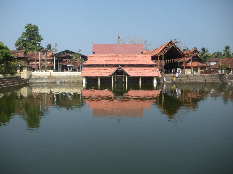 Ambalappuzha Sreekrishna Temple